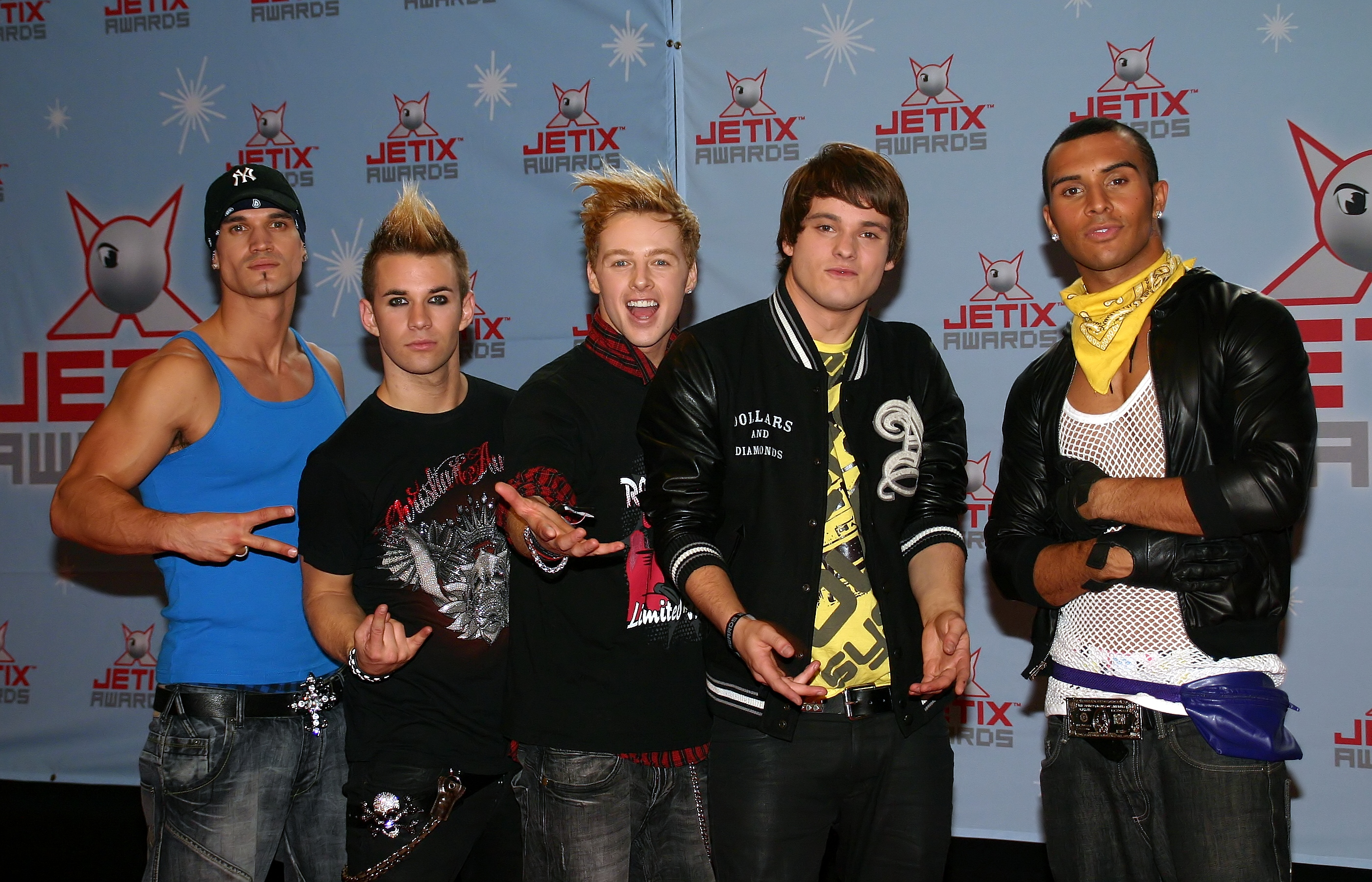 Lexington Bridge during the conferment of the JETIX Award at the youth fair "YOU", Berlin